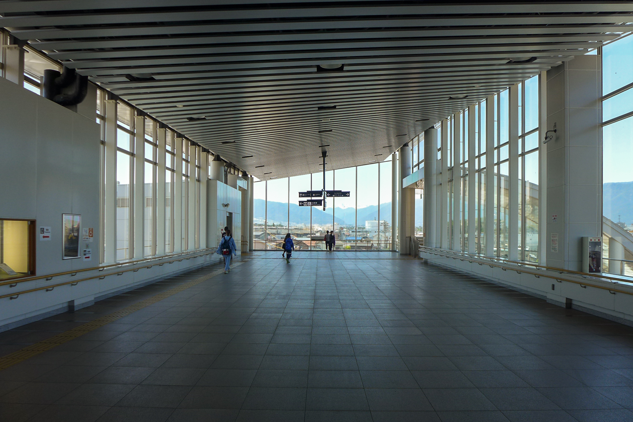 The connecting passageway at Matsumoto Station in Nagano Prefecture, Japan